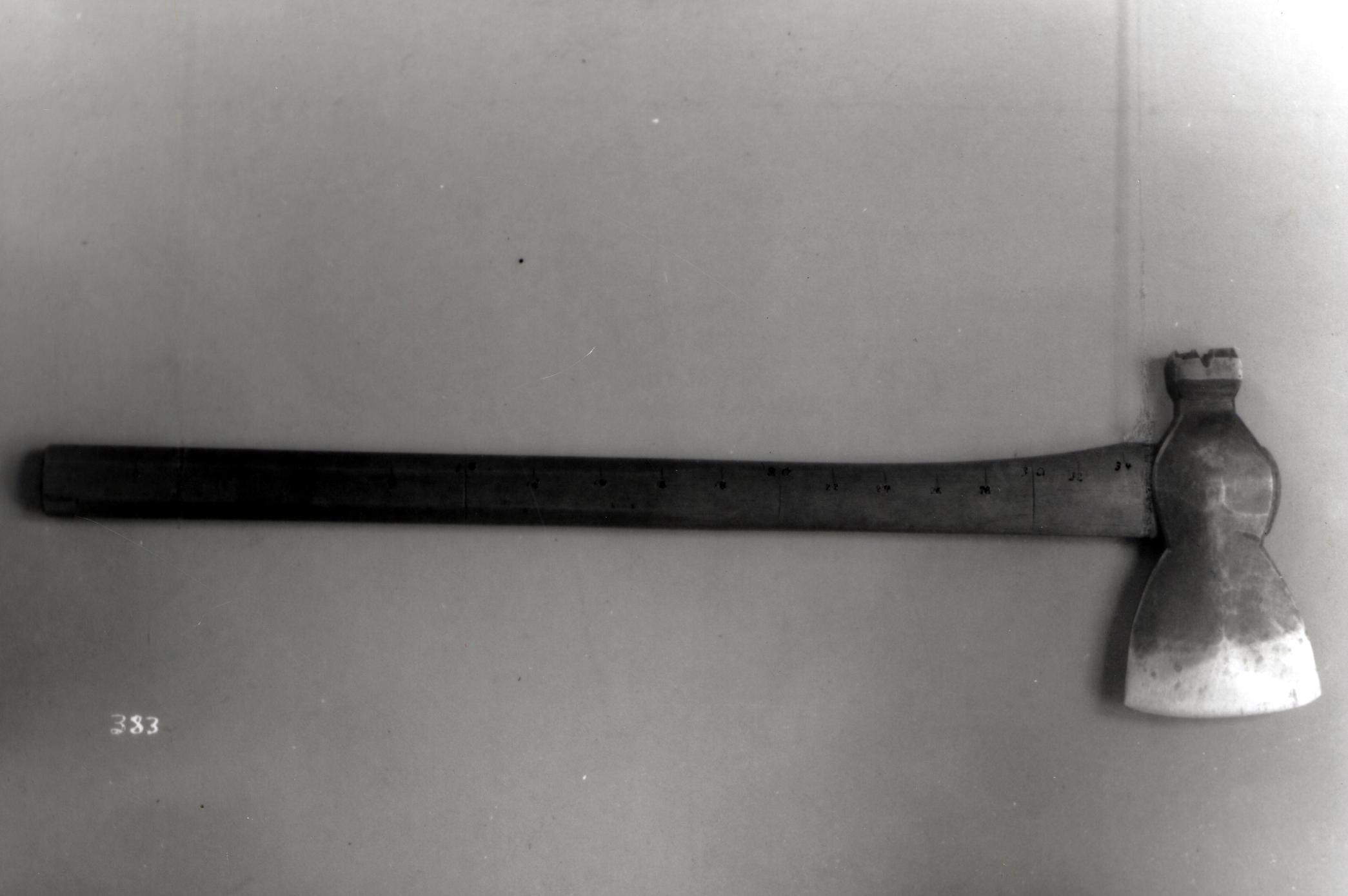 Biltmore scale inscribed on a US log branding axe. Ashland, Oregon. Photo by: F.P. Keen Date: March 1916 Credit: USDA Forest Service, Pacific Northwest Region, State and Private Forestry, Forest Health Protection. Collection: Bureau of Entomology Collection; La Grande, Oregon. Image: BUR-2270 To learn more about this photo collection see: Wickman, B.E., Torgersen, T.R. and Furniss, M.M. 2002. Photographic images and history of forest insect investigations on the Pacific Slope, 1903-1953. Part 2. Oregon and Washington. American Entomologist, 48(3), p. 178-185. For additional historical forest entomology photos, stories, and resources see the Western Forest Insect Work Conference site: Image provided by USDA Forest Service, Pacific Northwest Region, State and Private Forestry, Forest Health Protection